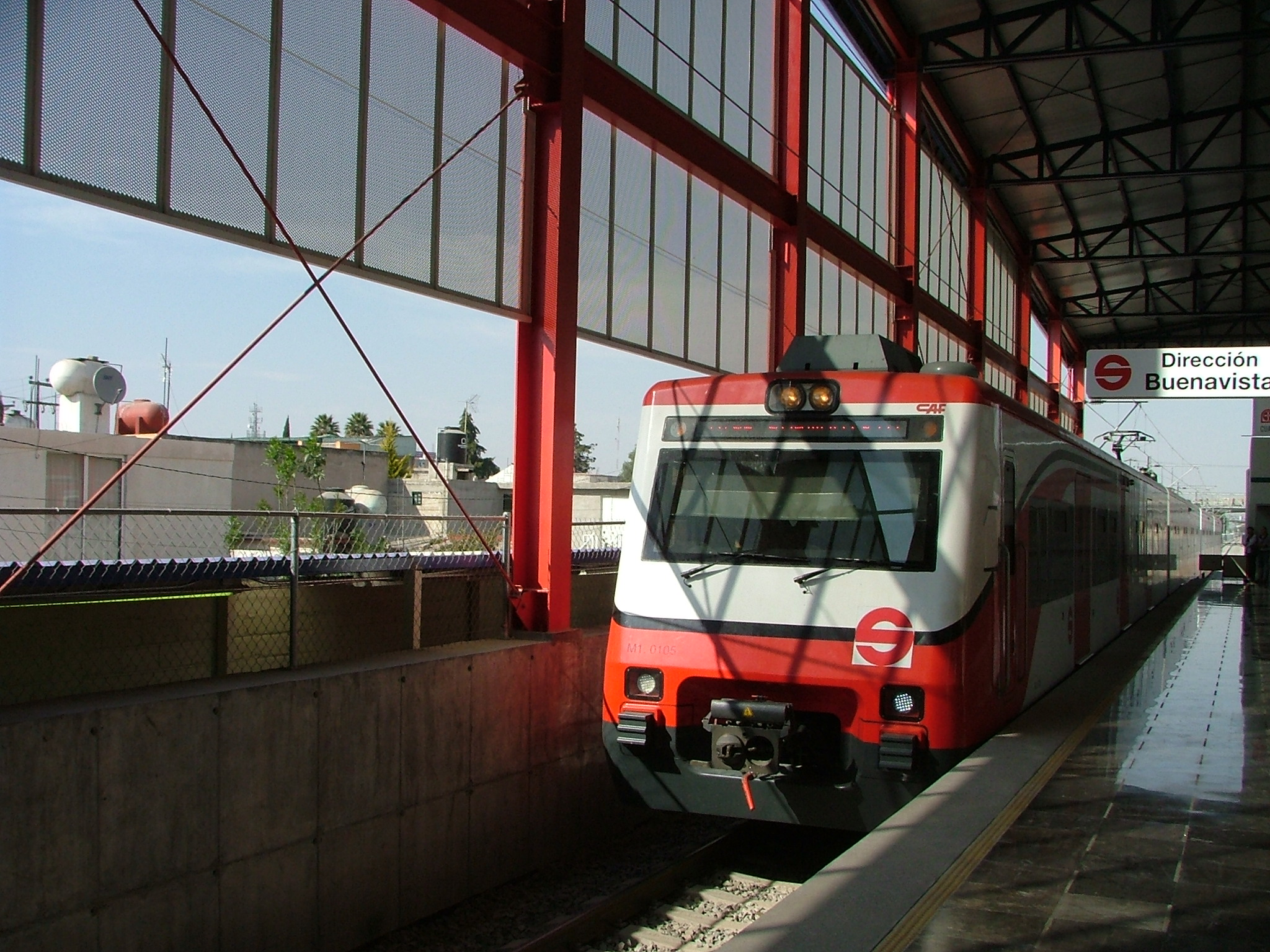 EMU built by CAF inside the Suburban Railway station Cuautitlan